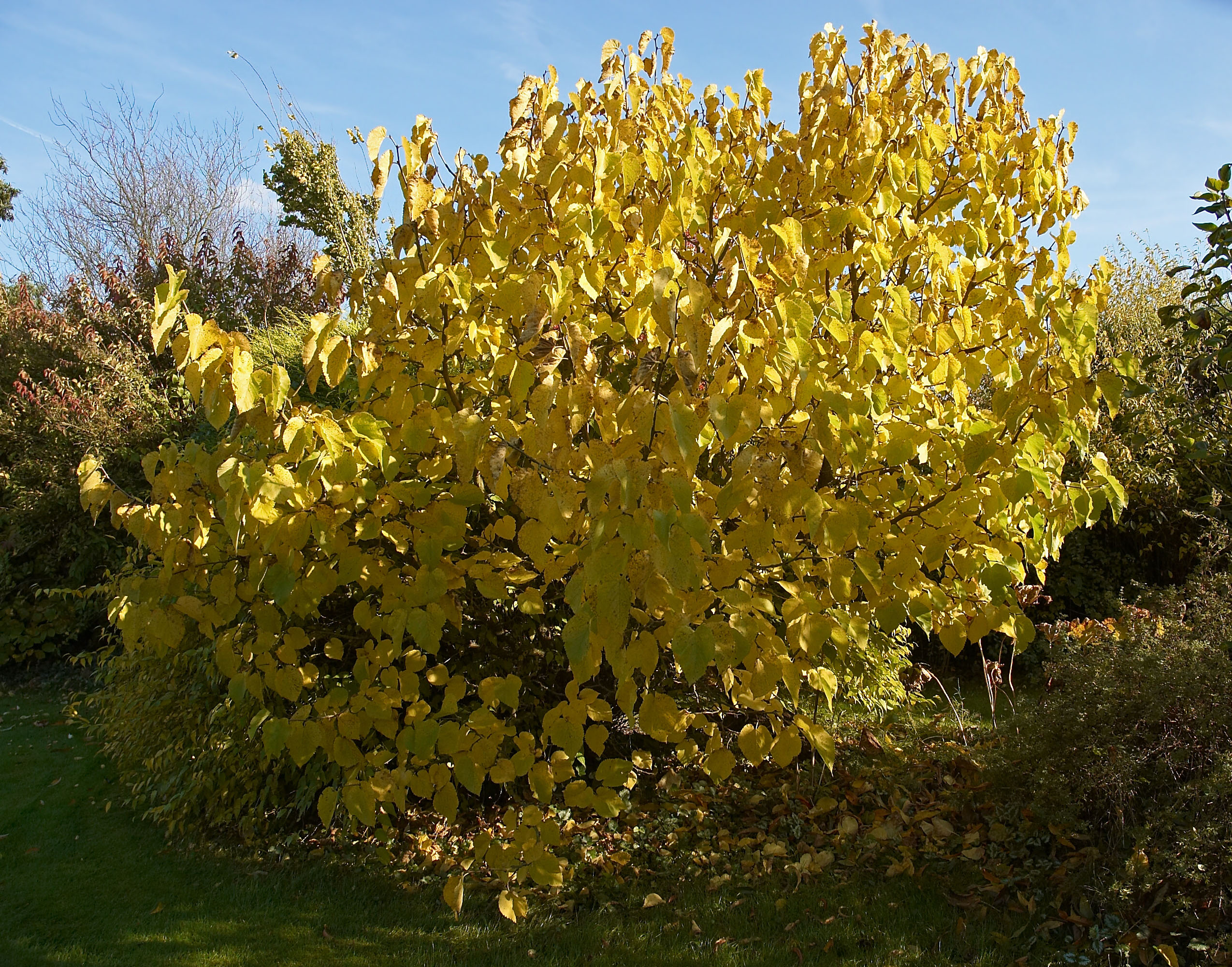 Black Mulberry, yellow leaves in autumn. Photo taken in Belgium